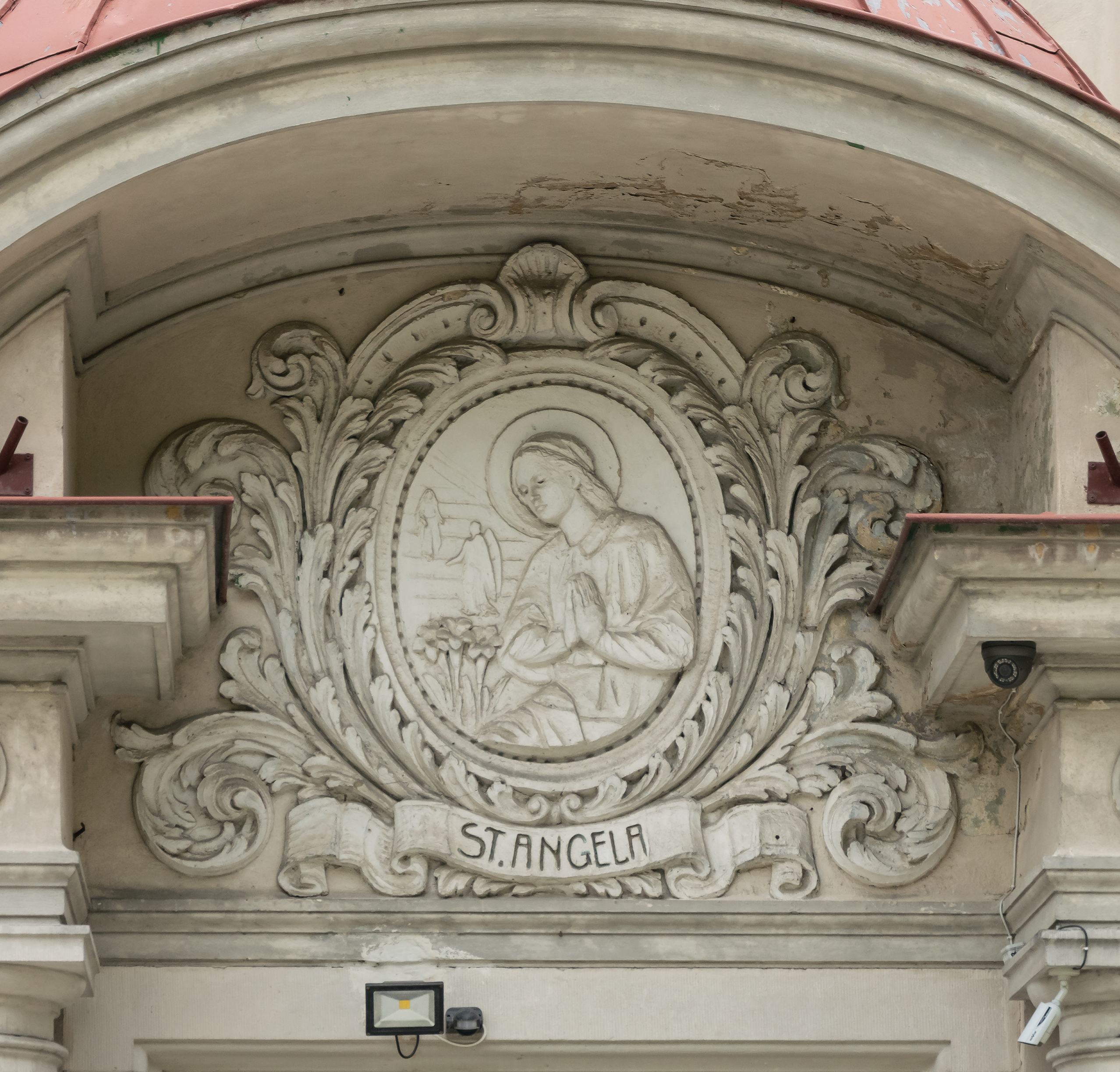 Ursuline Convent of the Roman Union in Bardo Wikidata has entry Q30084115 with data related to this item.